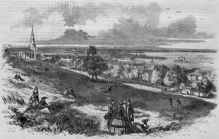 View of Brighton, Staten Island, New York, a wood engraving published August 1857 in Ballou's Pictorial Drawing-Room Companion, Boston, Massachusetts.